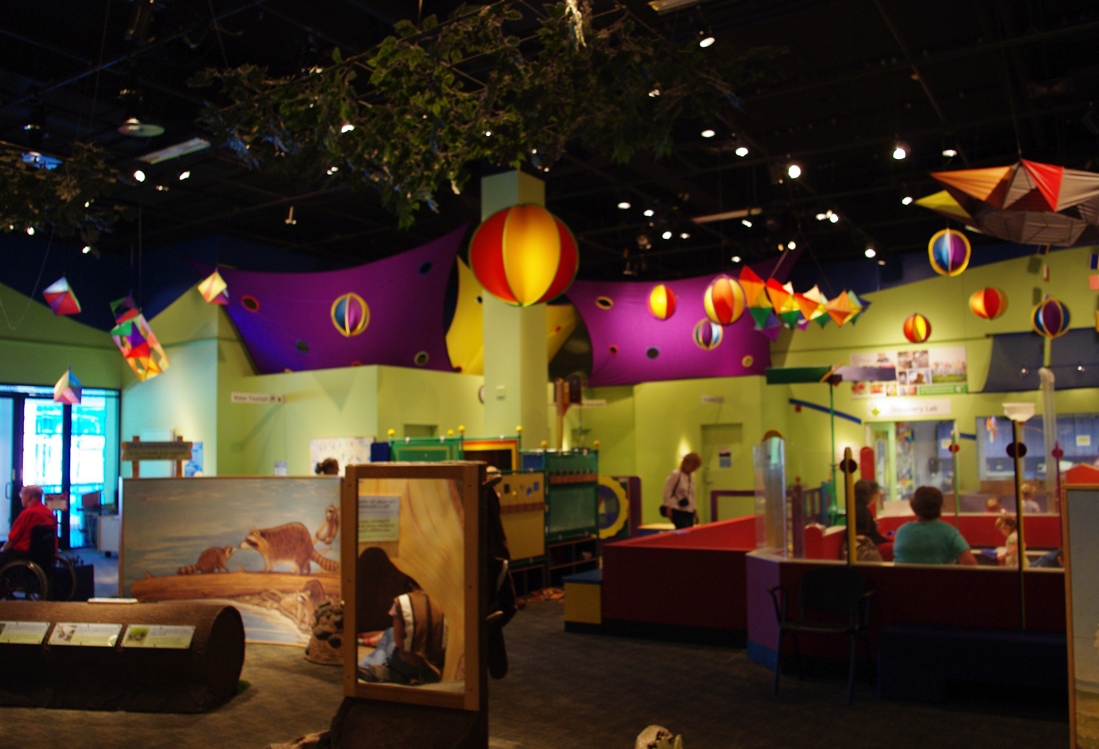 Kids exhibit inside Oregon Museum of Science and Industry.